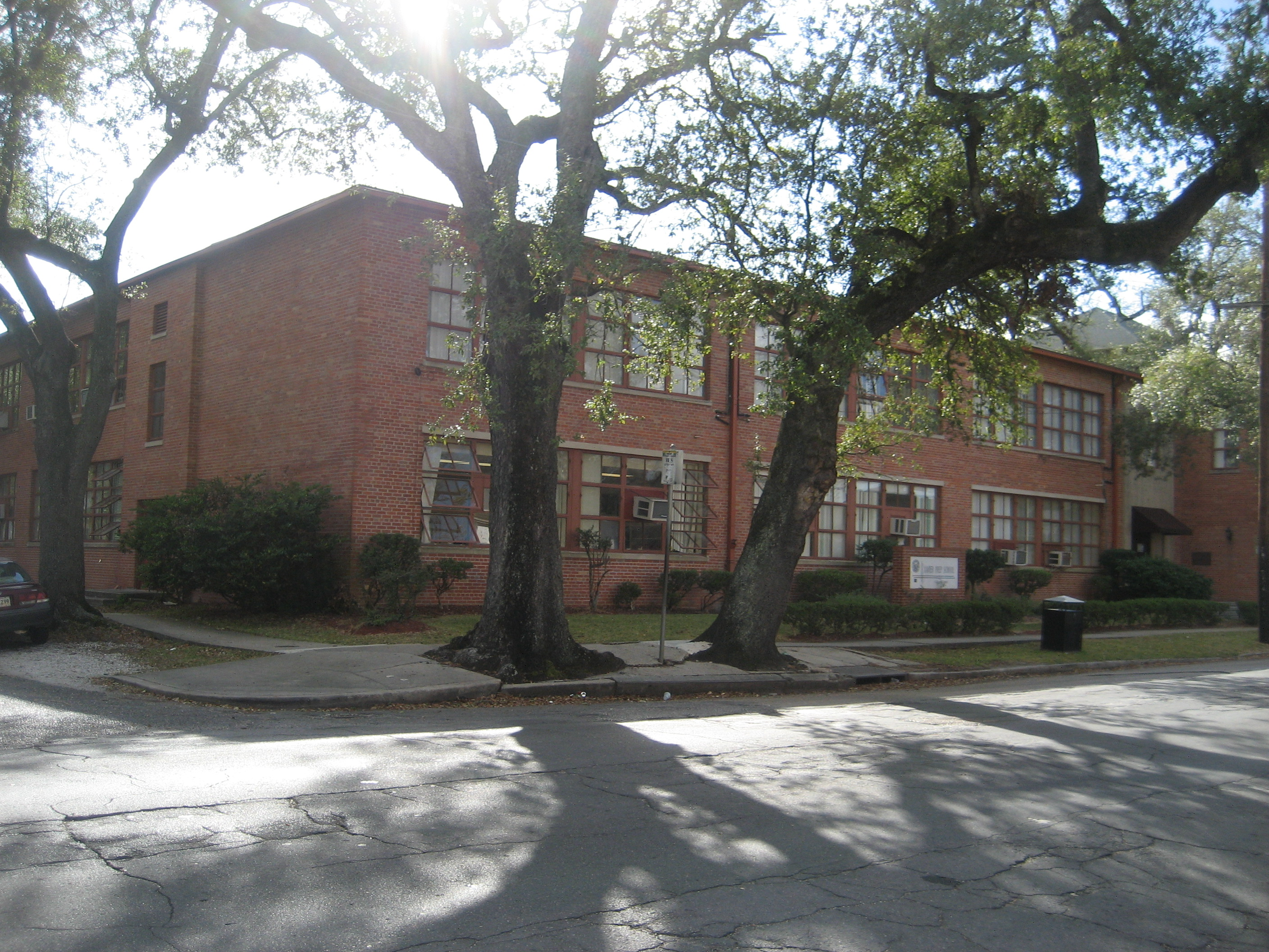 5100 block of Magazine Street, river side, Uptown New Orleans. Xavier Prep school